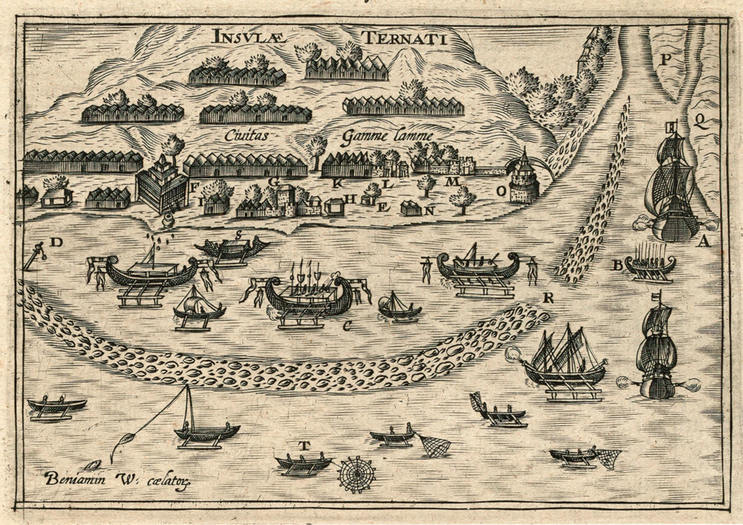 View of Gamme Lamme on Ternate. Insulae Ternati. Civitas Gamme Lamme. Several Moluccan vessels lie moored off the coast, near A and B on the right, two European East Indiamen. Cf. Rijksmuseum Amsterdam, inv. nr. RP-P-OB-75-401 and Universiteitsbibliotheek, Universiteit van Amsterdam, inv. nr. O 60 641, p. 40.